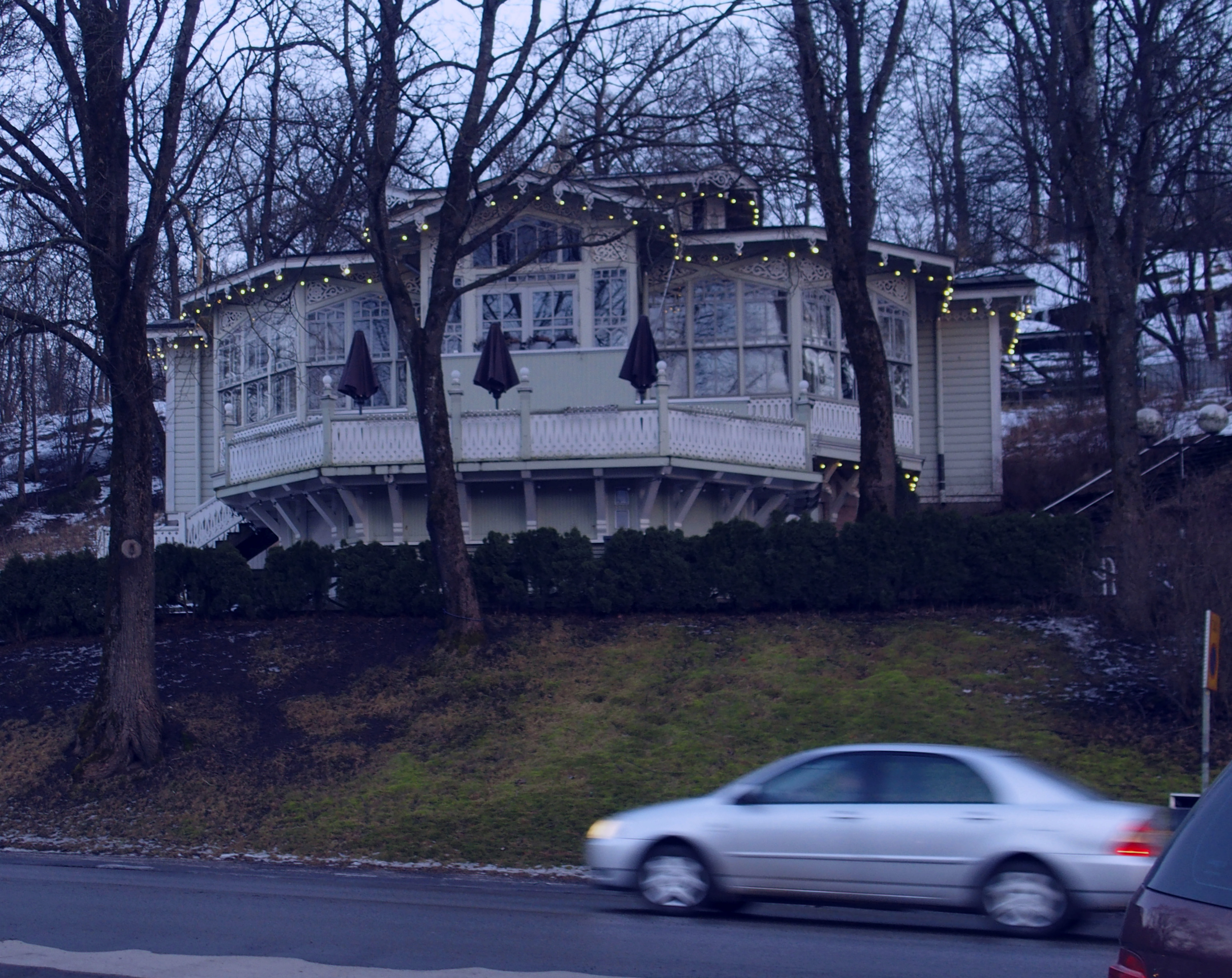 Carl Johan von Heideken 1865, expansion by Arthur Helenius 1895.